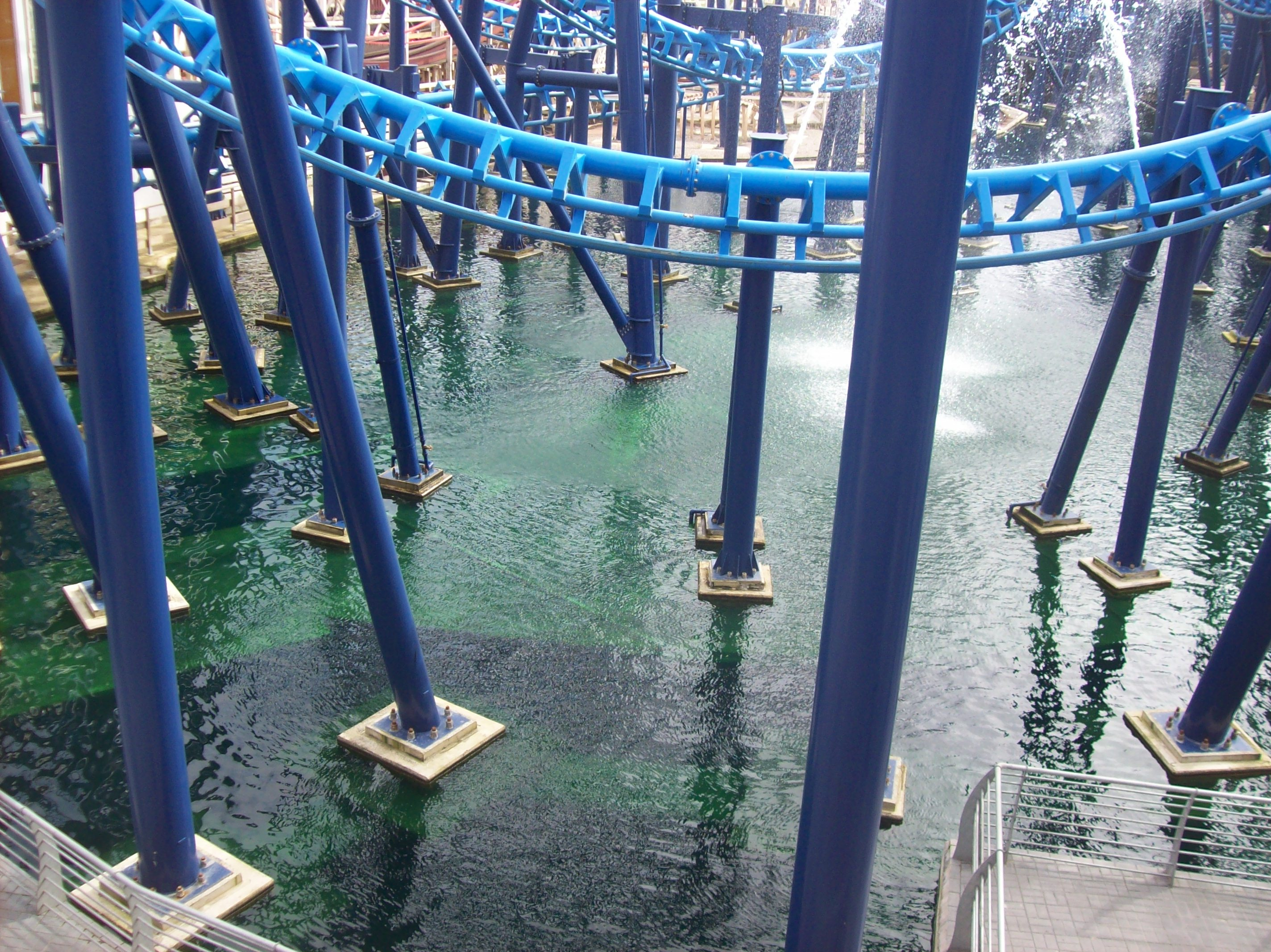 The Infusion rollercoaster's structural support, at Blackpool Pleasure Beach